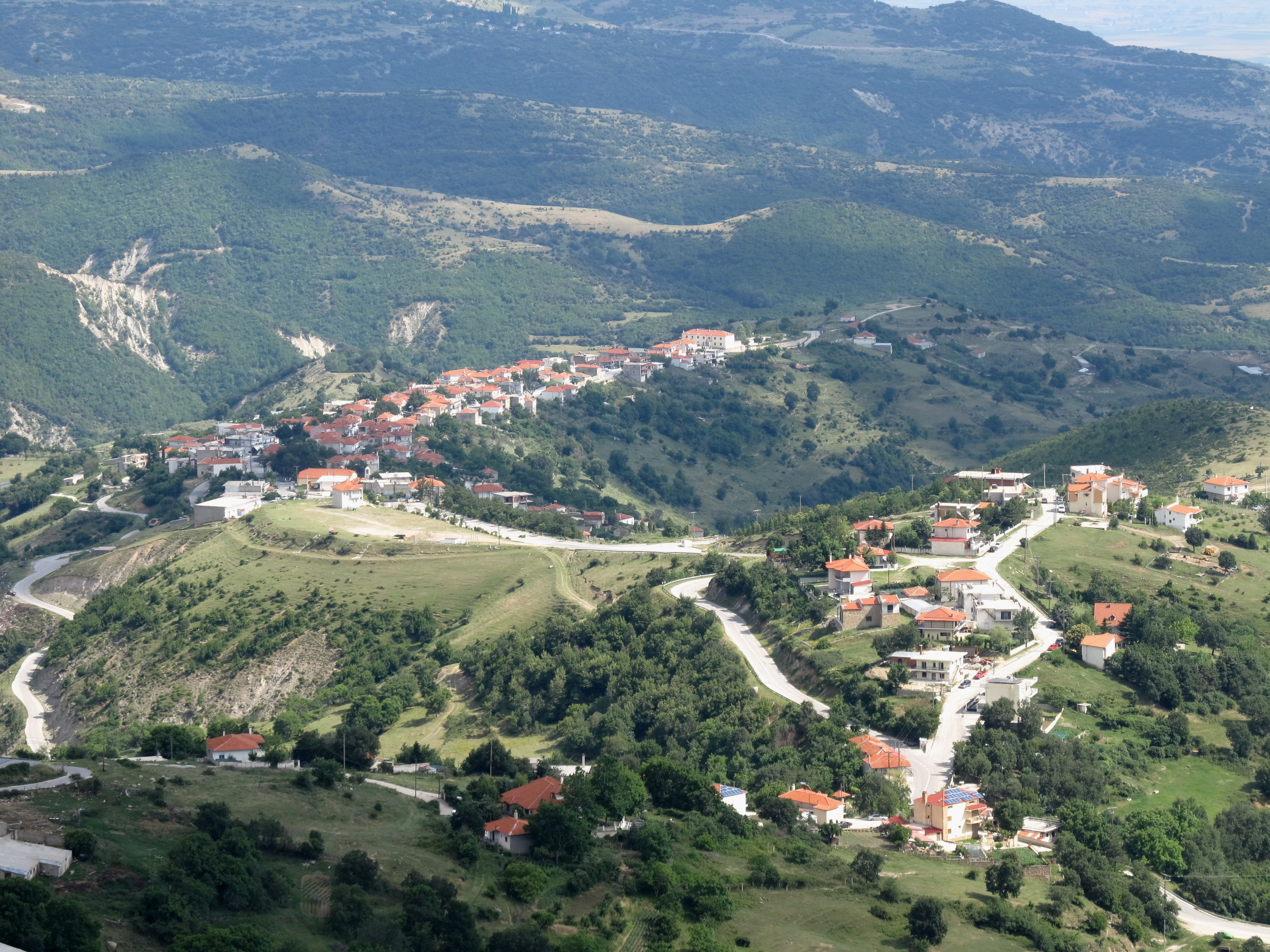 General view of the village Oreini (Frashtani), Northern Greece